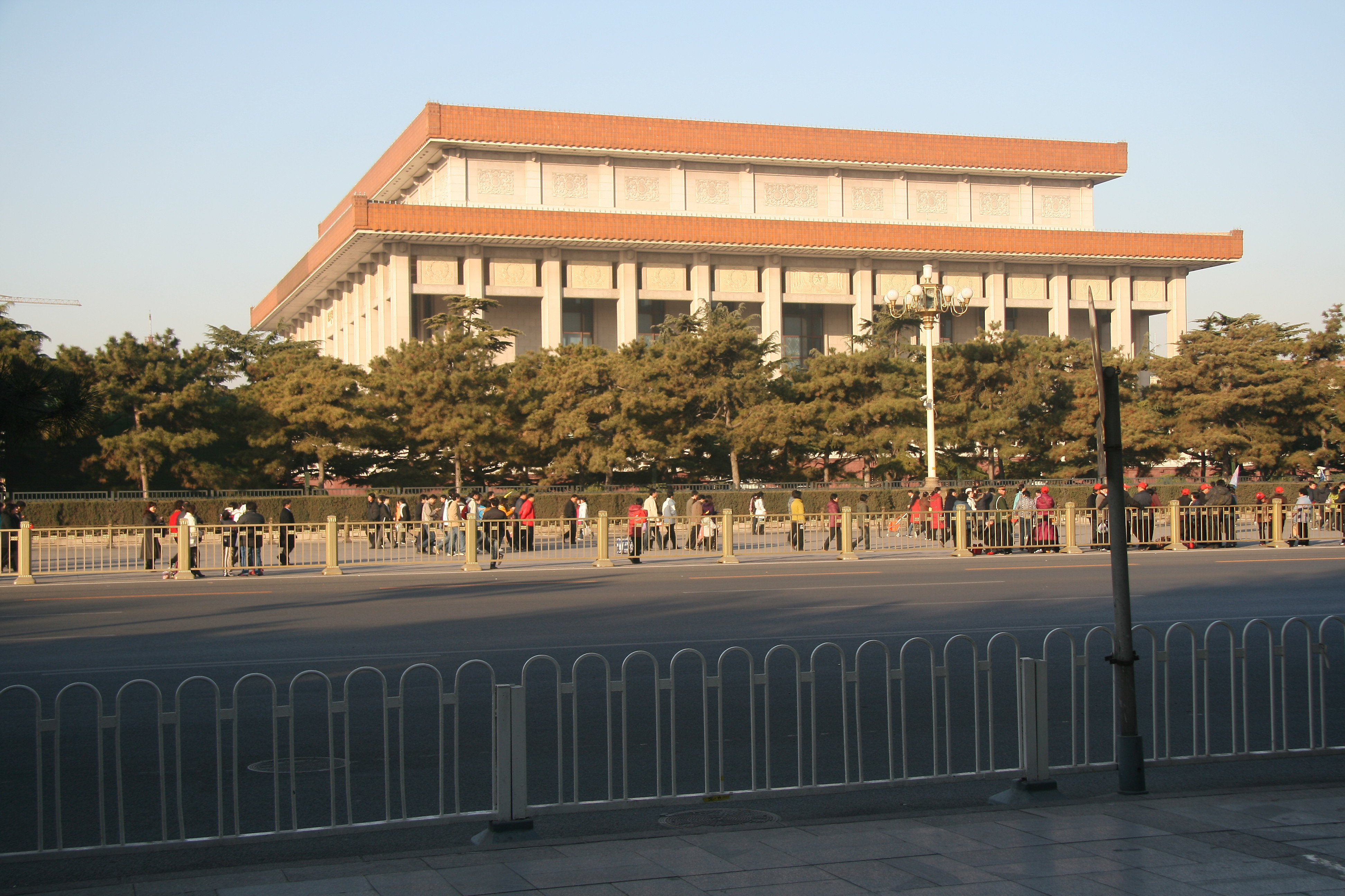 Mausoleum of Mao Zedong in Tiananmen Square, Beijing, China.